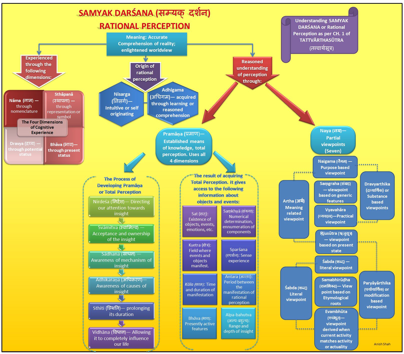 This chart provides basic understanding of Samyak Darsana or Rational perception based on Umasvati's Tattvarthasutra